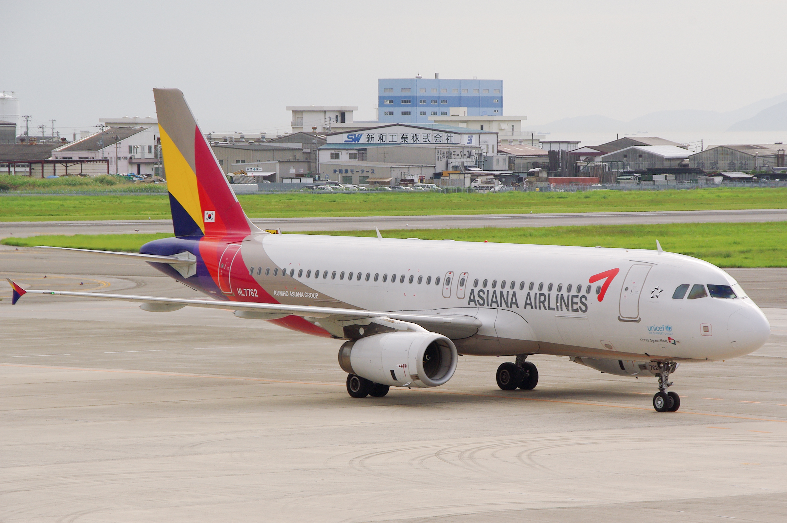 Photograph of Asiana Airlines' Airbus A320-200 (HL7762), taken from the observation deck of Matsuyama Airport passenger terminal building in Matsuyama, Ehime Prefecture, Japan.